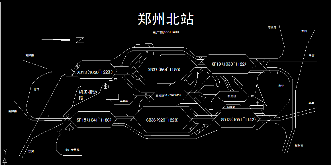 Sketch map of Zhengzhou North Railway